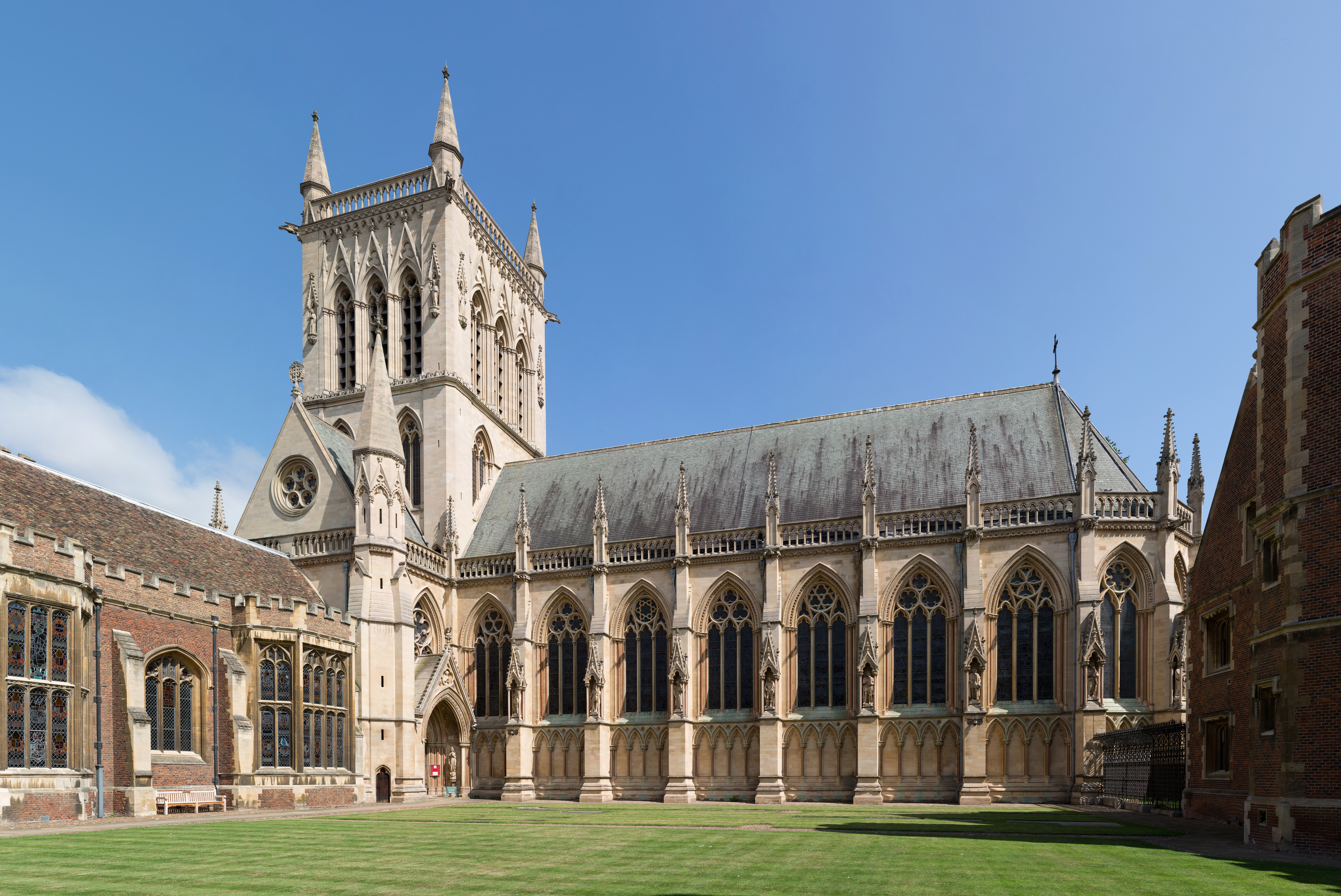 The Chapel of St John's College from across First Court in Cambridge, England.